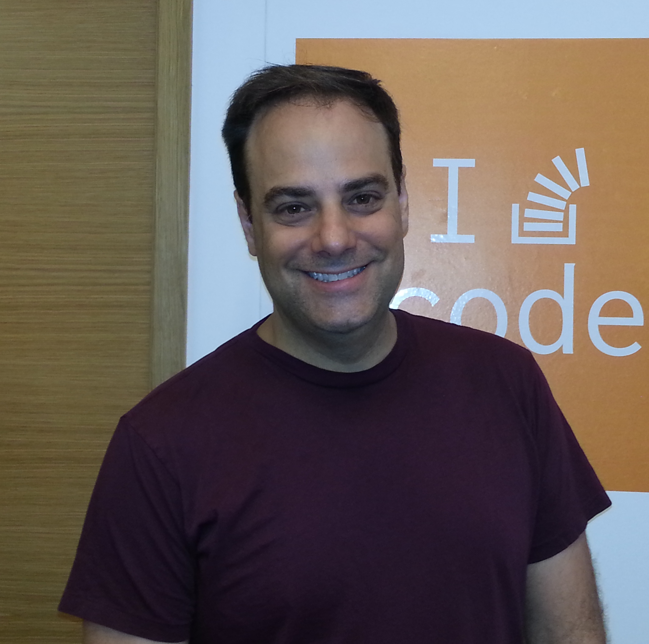 Joel Spolsky at the Stack Exchange London office.